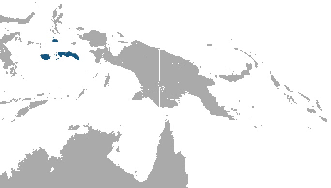 Moluccan Flying Fox (Pteropus chrysoproctus) range